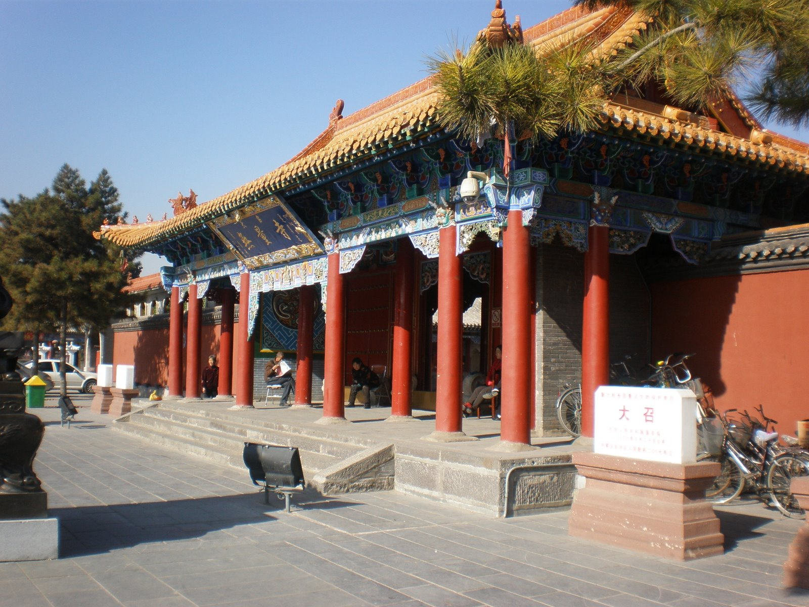 Da Zhao Temple (Chinese: 大召寺; pinyin: Dàzhào Sì) is a Buddhist monastery in the city of Hohhot in Inner Mongolia in north-west China. It is the largest temple in the city and is located in a narrow alley west of Tongdao Nan Jie.